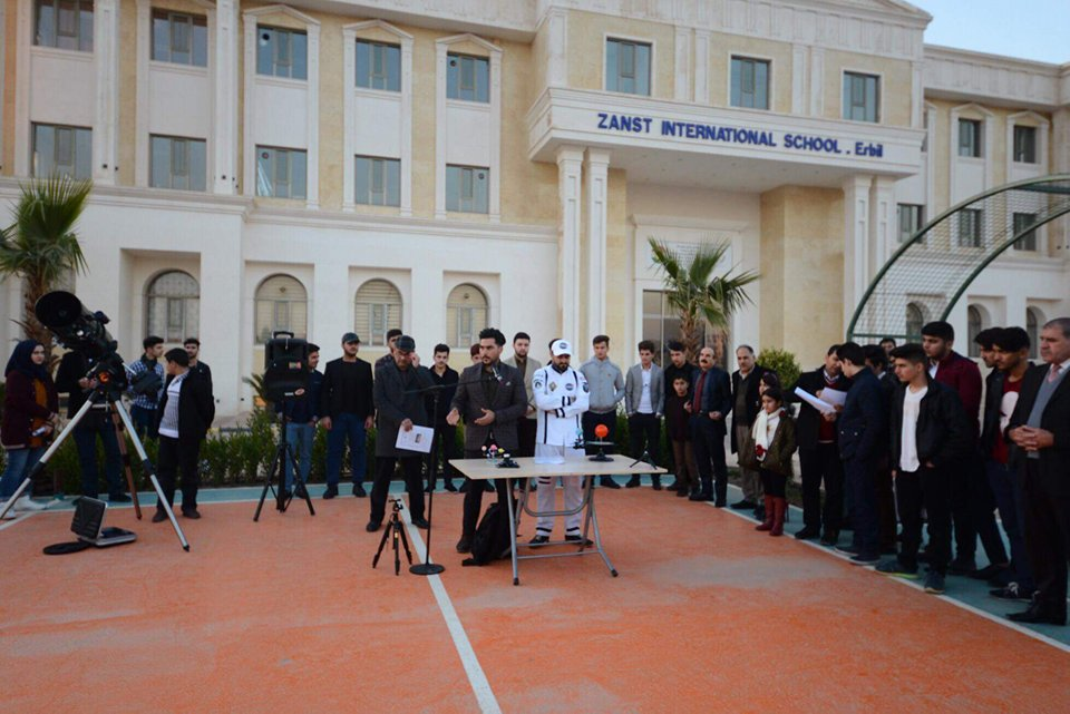 کاتی وتاردانی دامەزرێنەری پەیوەندی کاکێشان